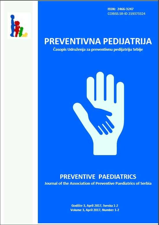 Cover of Journals Preventivna pedijatrija, The Association of preventive pediatrics of Serbia, Niš, Serbia, Number 3 from 2017 Srpski (latinica): Korice časopisa Preventivna pedijatrija, izdavač Udruženje za preventivnu pedijatriju Srbije, Niš, broj 3 iz 2017. godine